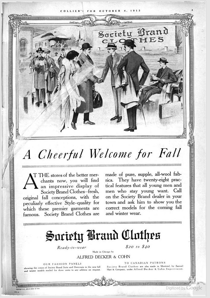 Society Brand Clothes ad from the October 4, 1913 issue of Collier's magazine, page 3.